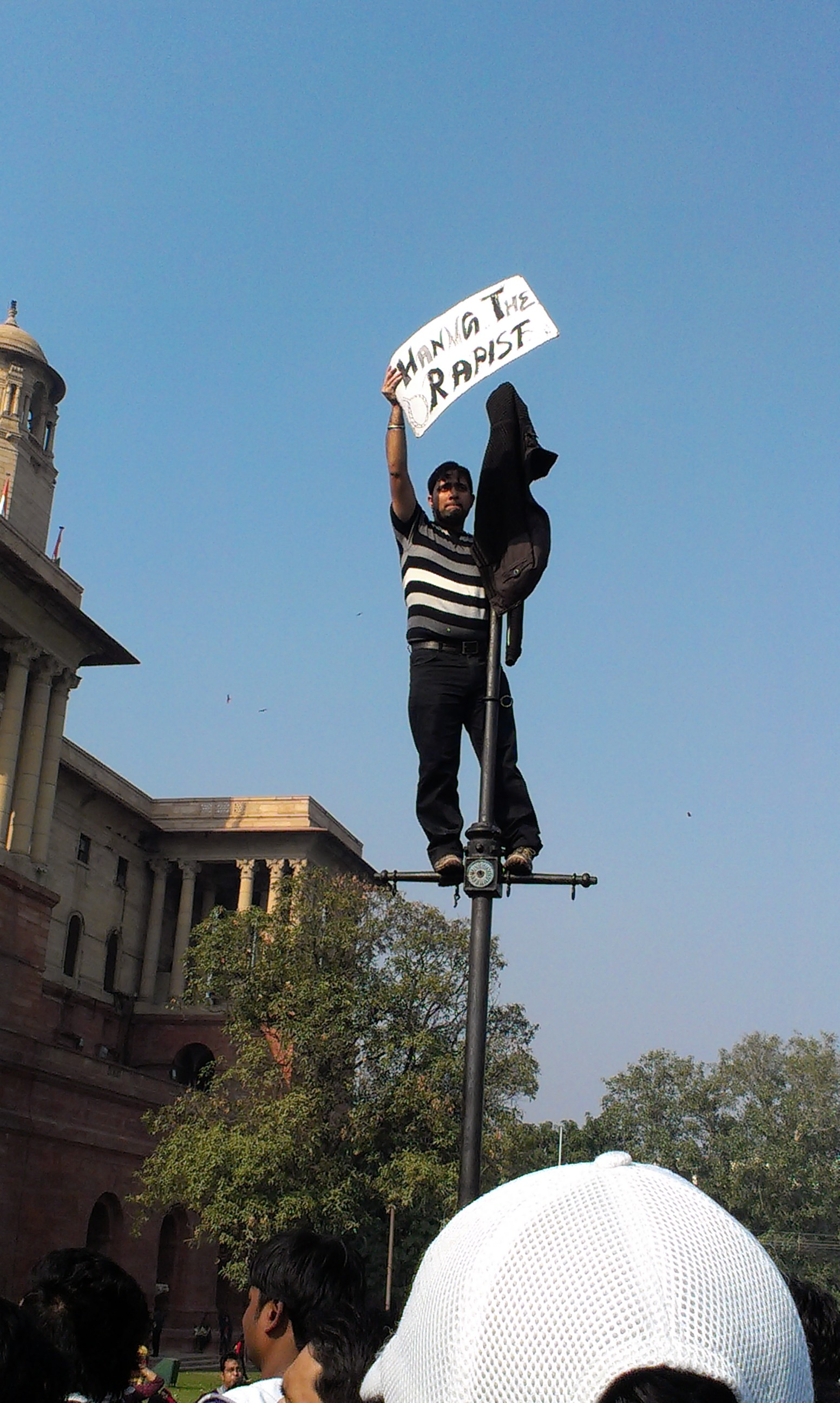 December 22, students protest the rising violence against women, Raisina Hill/ Rajpath; many wanted the death penalty for some kinds of violent rape